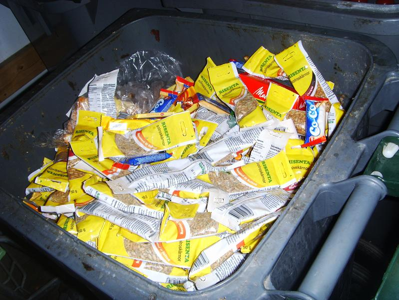 Food one can find while dumpster diving in Stockholm, Sweden